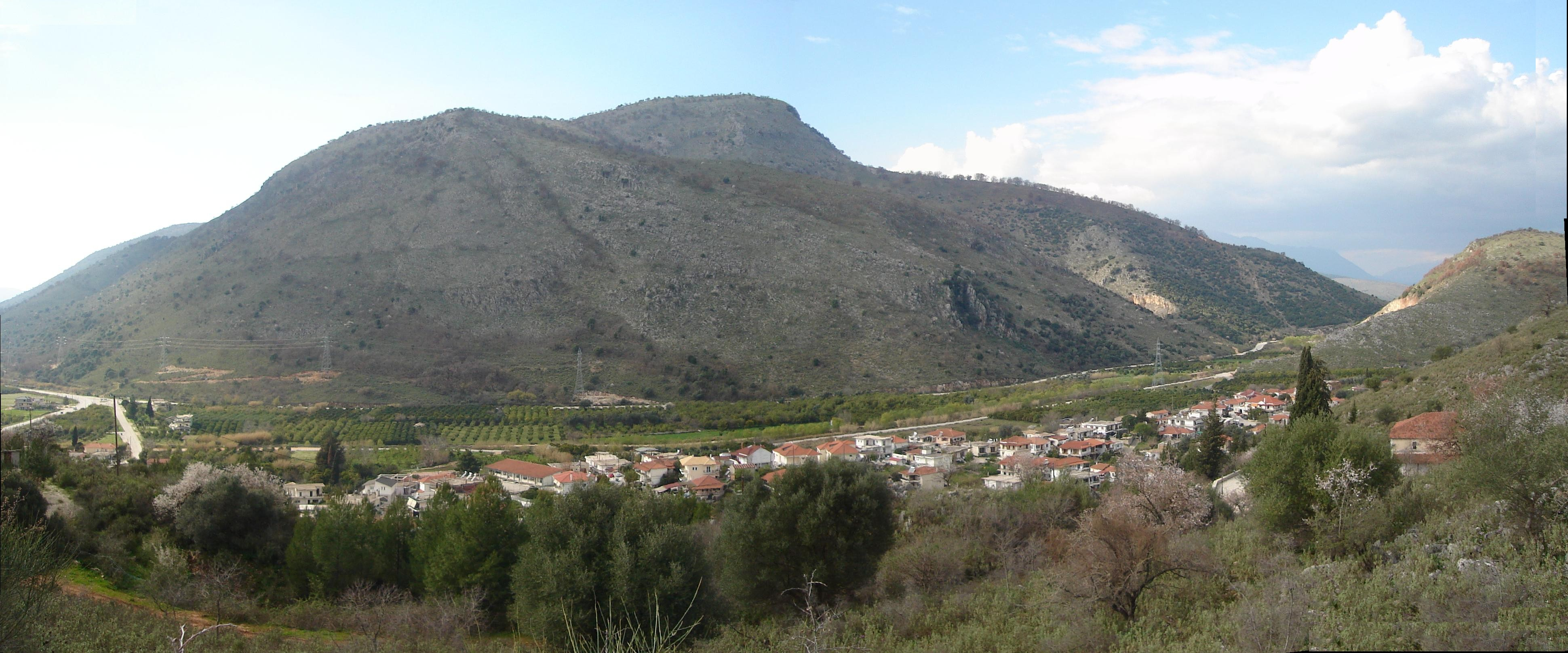 View of Stefani village at Preveza prefecture, Greece